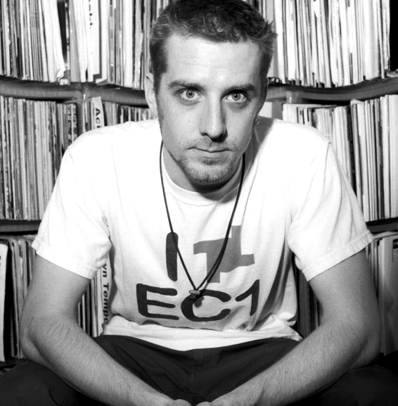 Image of Ali B in studio.